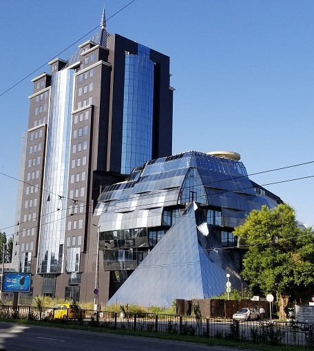 Maritza Hotel in Plovdiv